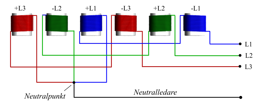 Asynch-motor-connections